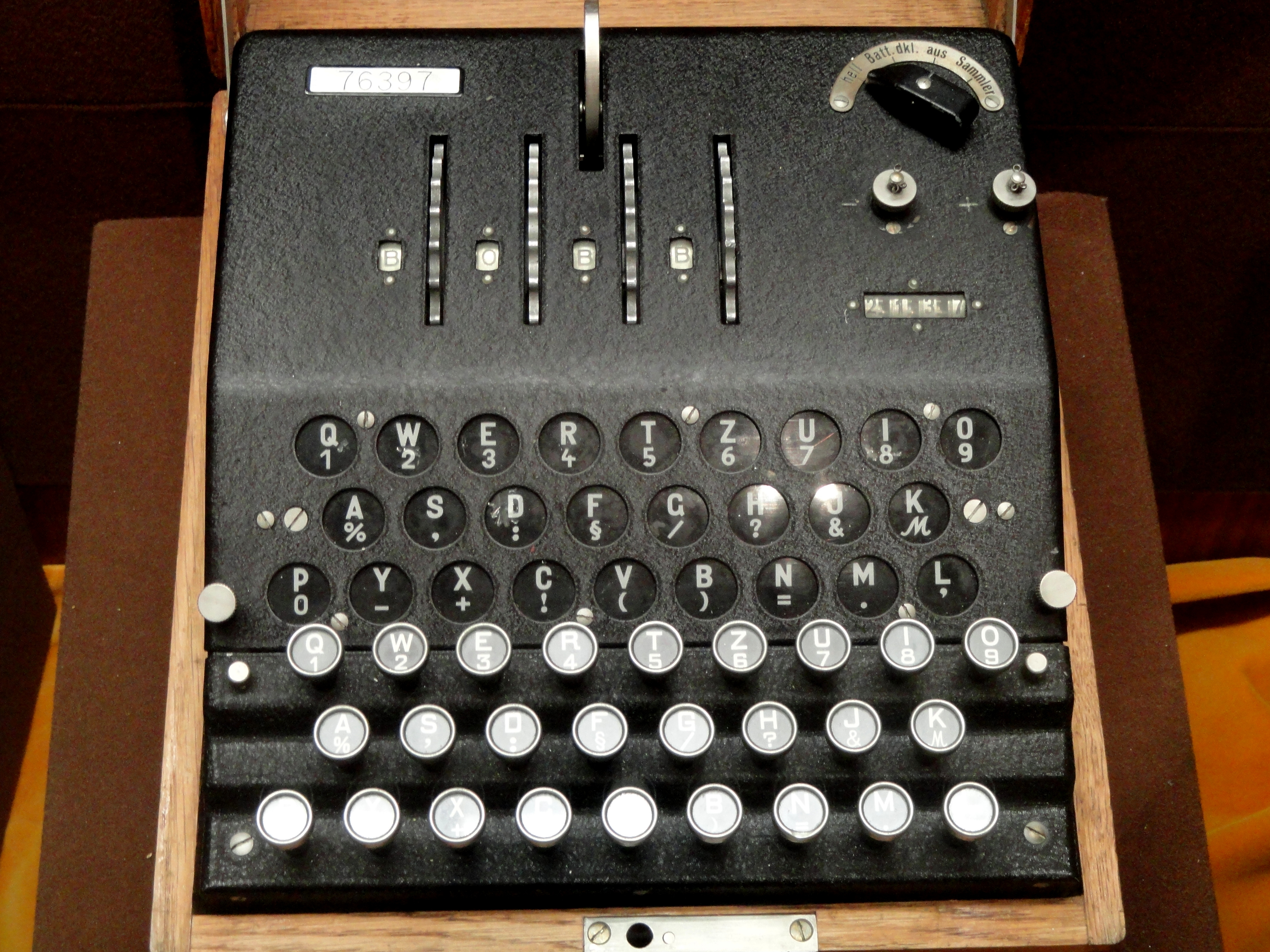 Exhibit in the National Cryptologic Museum, Fort Meade, Maryland, USA. All items in this museum are unclassified; items created by the United States Government are not subject to copyright restrictions.